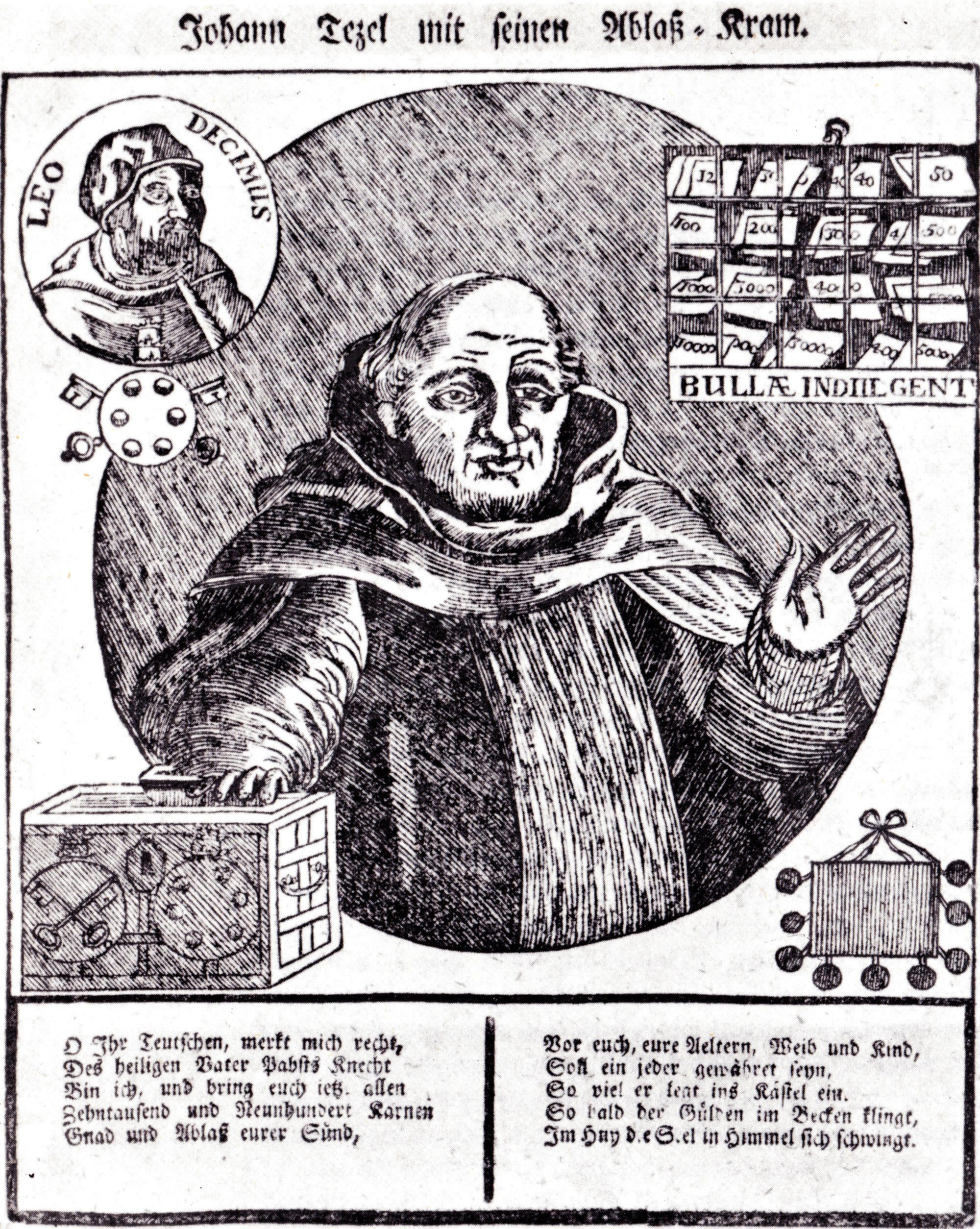 Johann Tezel with his indulgences. Contemporary flyer.